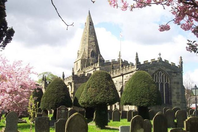 St. Peter, Hope.